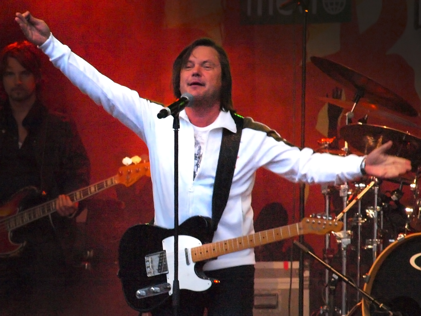 Tommy Ekman of Swedish pop band Style performing in Falun, Sweden.